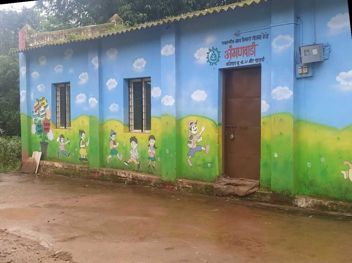 Vajeghar Courtyard in Velhe, Pune